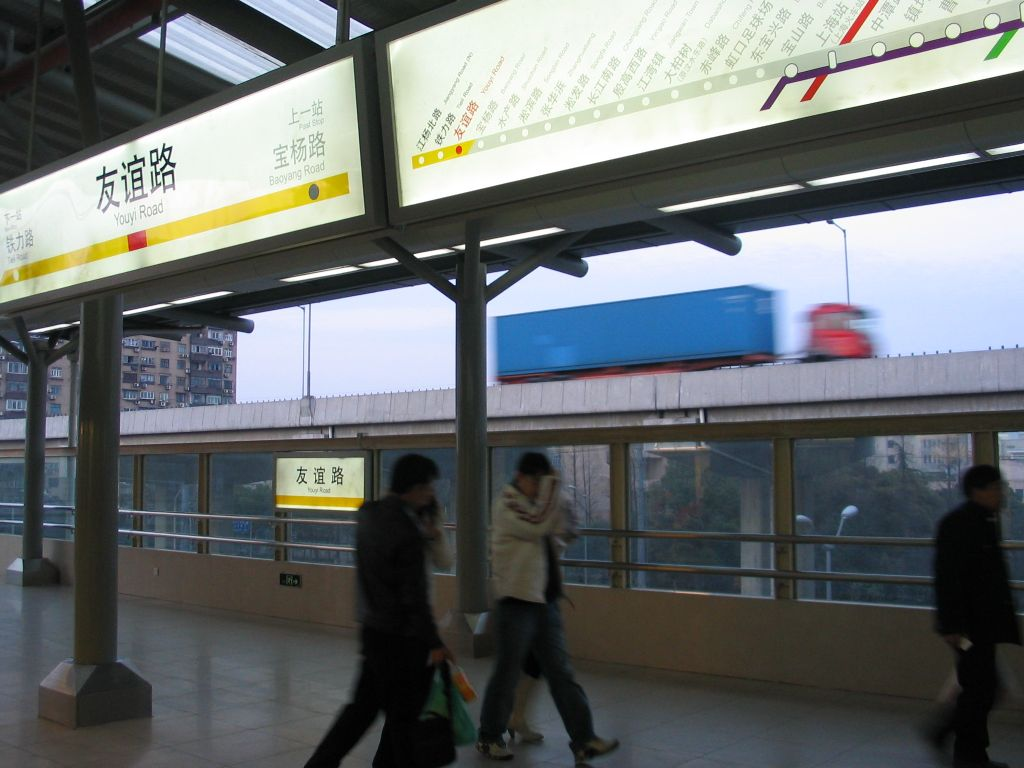 友誼路站-3號線月台 Line 3 Platform of Youyi Road Station